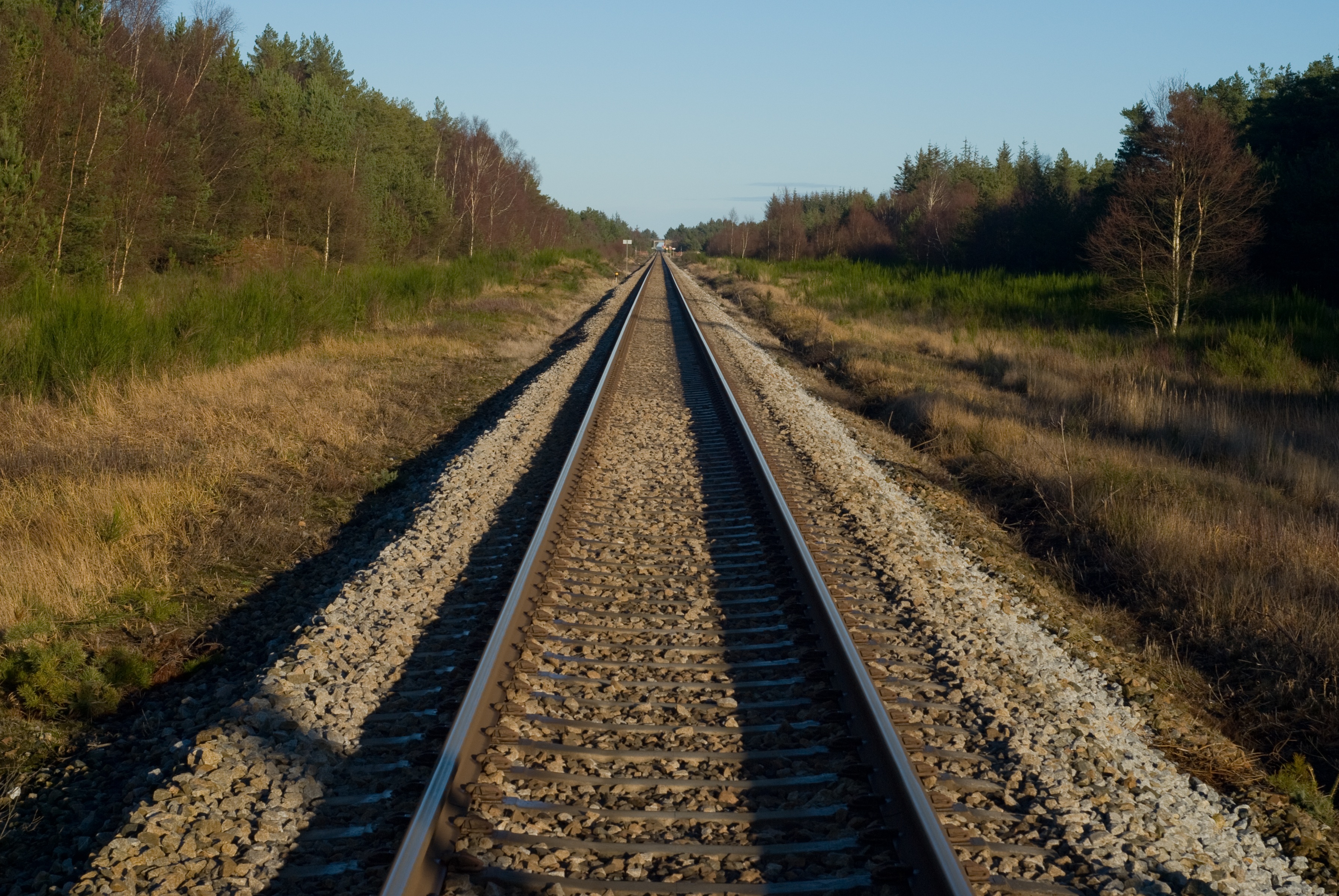 Skagens Railway rail tracks near Bunken.